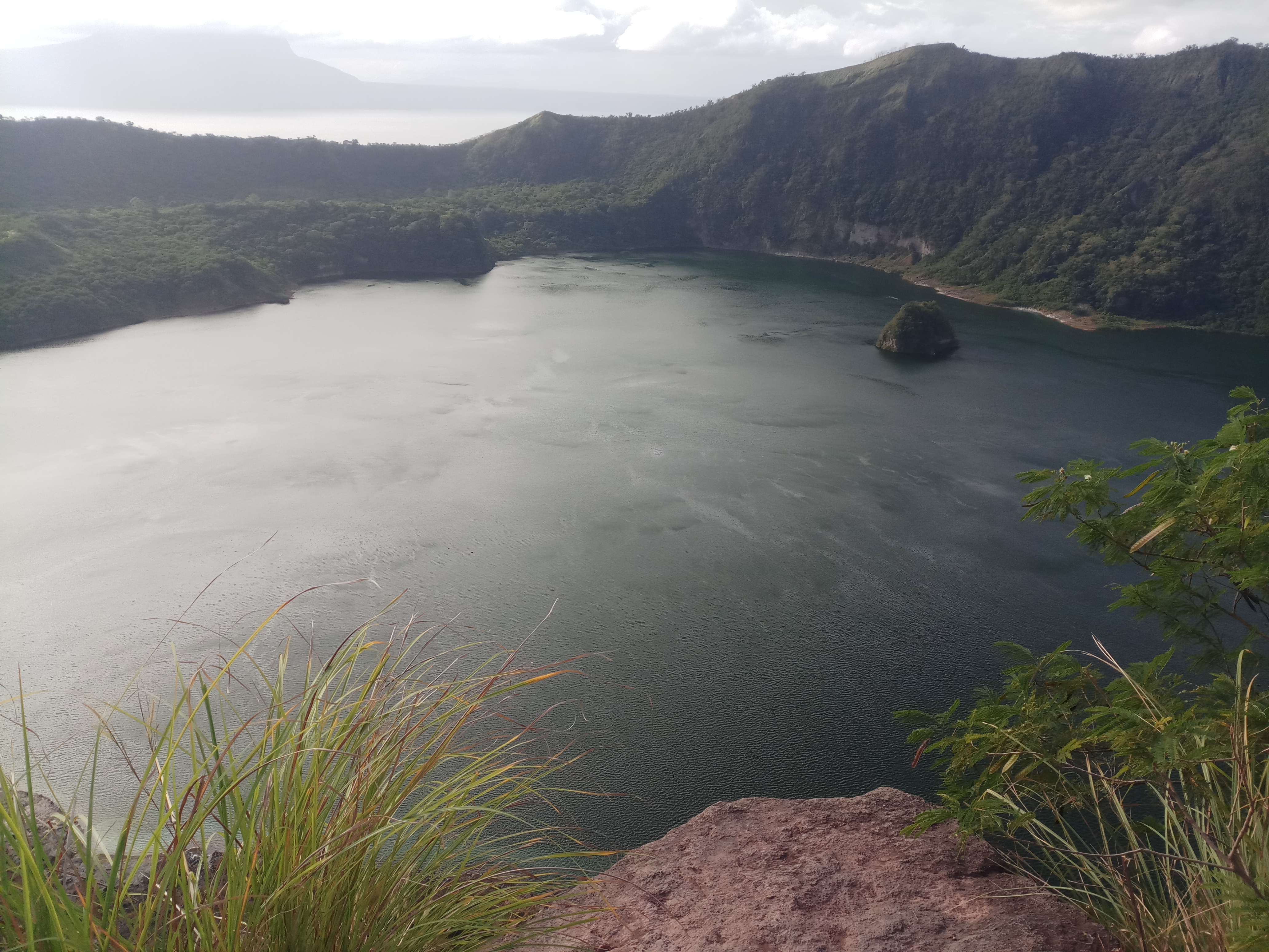 The main crater lake of Volcano Island of Taal Volcano Complex